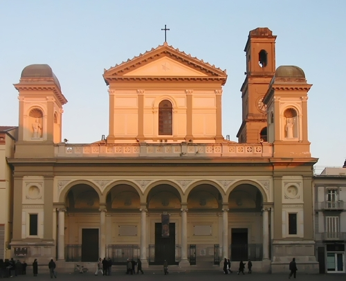 Cathedral of Nola, Italy